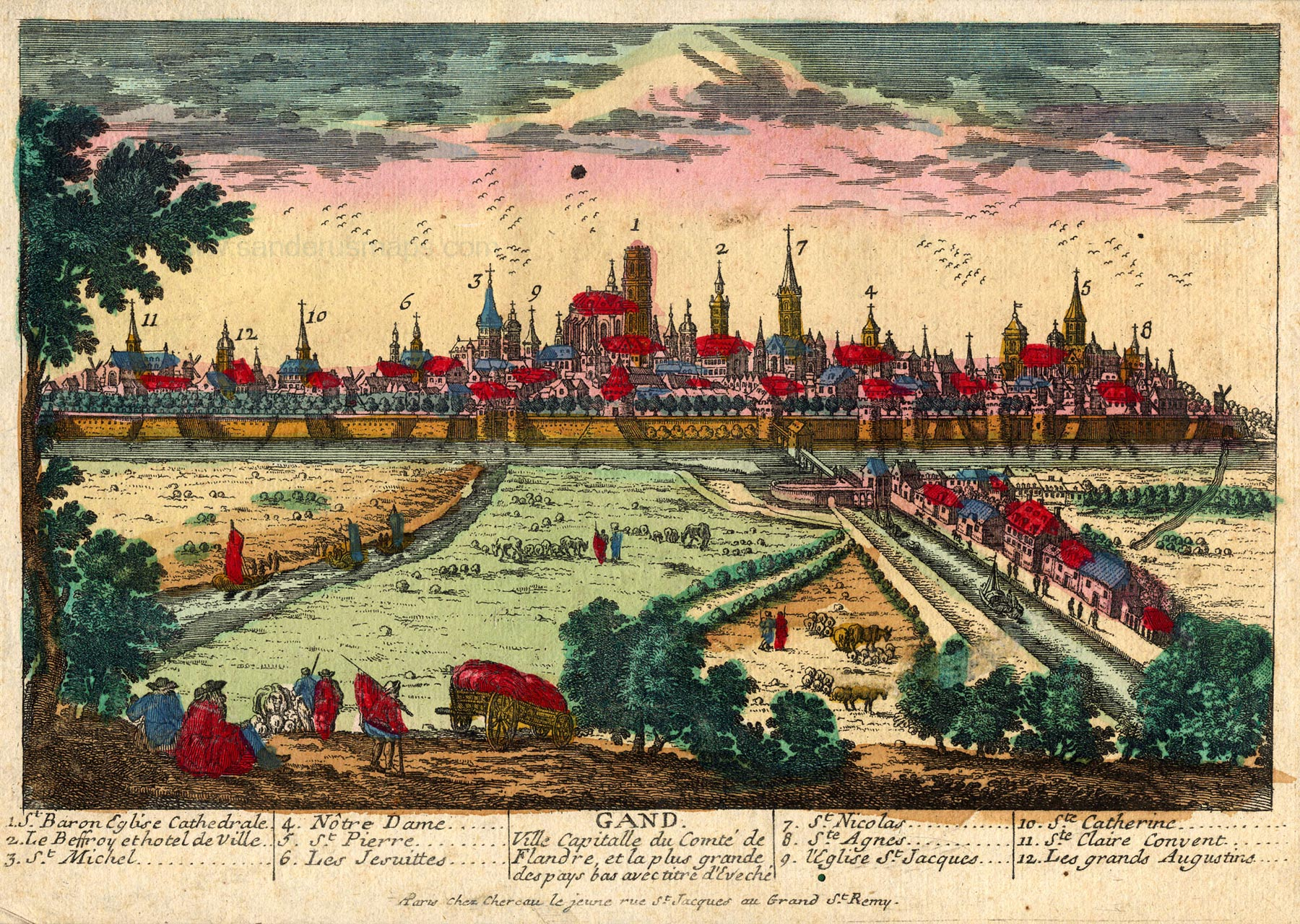 Gand. Ville Capitalle du Comté de Flandre, et la plus grande des pays bas avec titre d'Eveché - Chéreau , c. 1720. Very rare view of Ghent with key to 12 locations. Published in Paris by Chéreau, c. 1720. Size: 18 x 25.5cm (7 x 9.9 inches) Verso: Blank Condition: Old coloured, excellent. Condition Rating: A